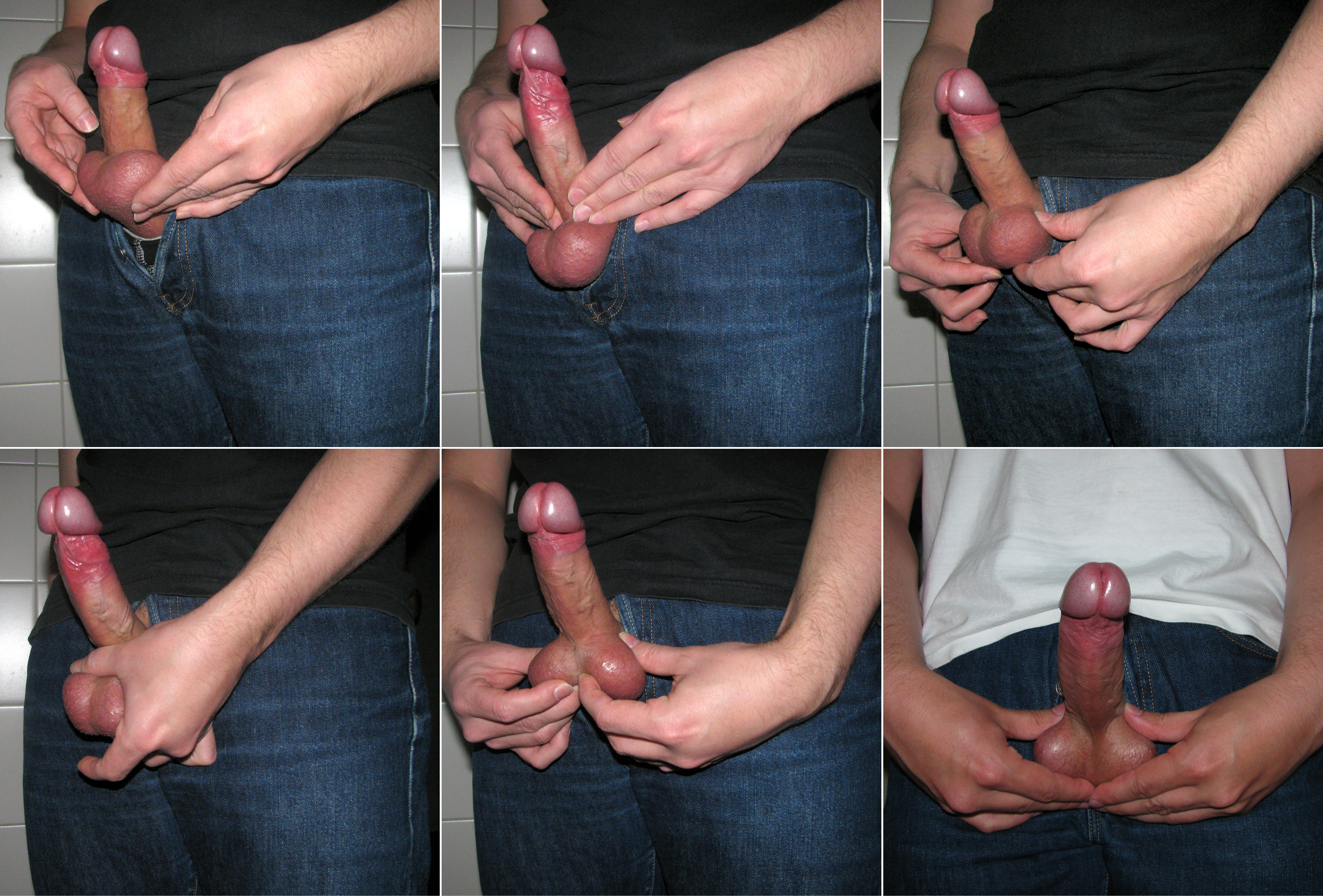 In this series of images a male (age 34) demonstrates testicular masturbation techniques. The male is wearing jeans, he has taken his penis and testicles out of the fly. Some techniques are pulling the testicles up, pushing or pulling them down, squeezing the testicles and tightening the scrotal skin. This male often masturbates testicles while wearing pants (preferably button fly jeans) because it is more pleasurable when the testicles come out through a tight fly opening. This causes more pressure to the testicles and they stay better in place which makes it easier to masturbate them.